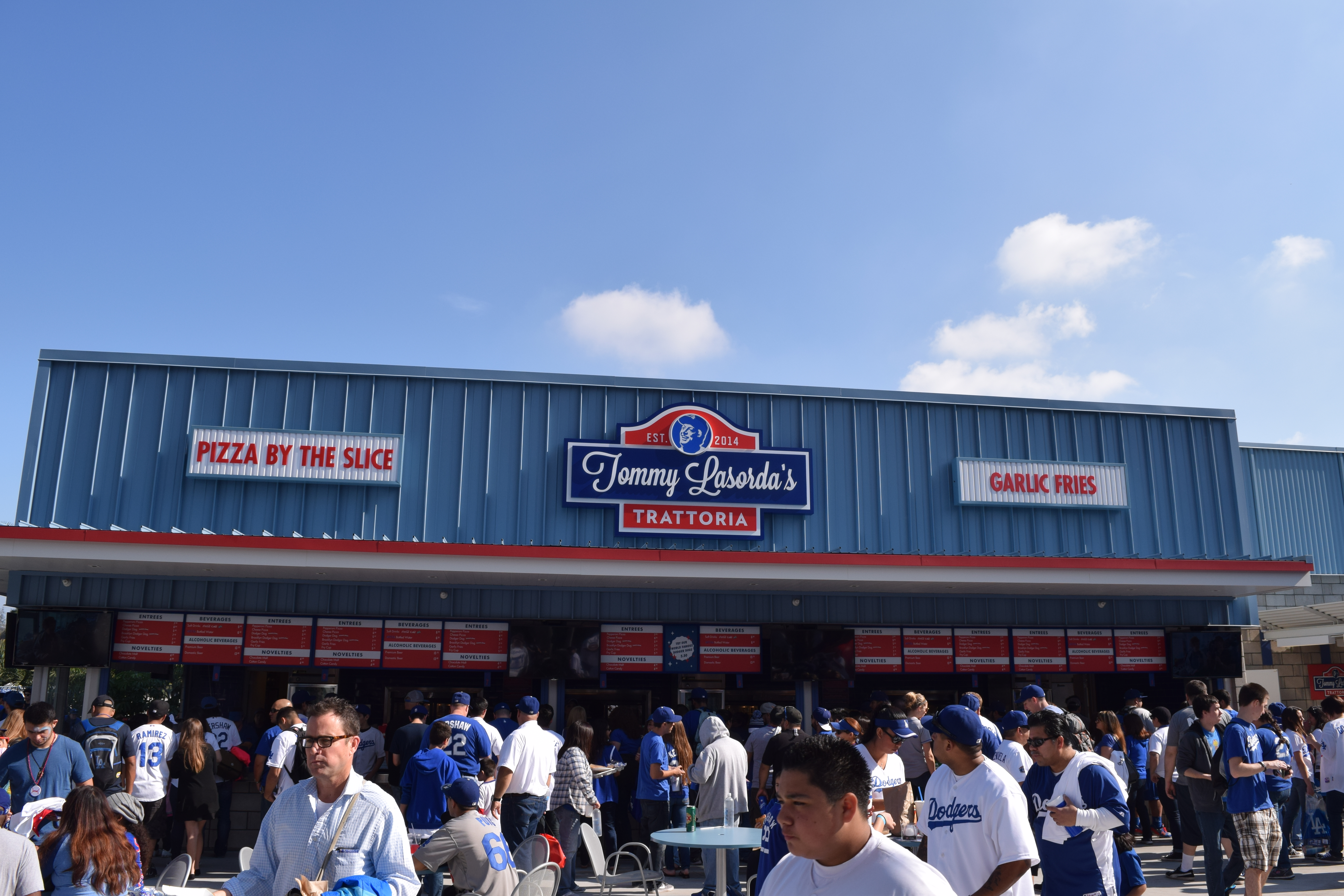 Tommy Lasorda's Trattoria, an Italian restaurant in the right field concourse at Dodger Stadium. The restaurant is a product of the minor 2014 renovations to Dodger Stadium, which included bullpen overlooks and overlook bars, and walkways between the main part of the stadium and pavilions.